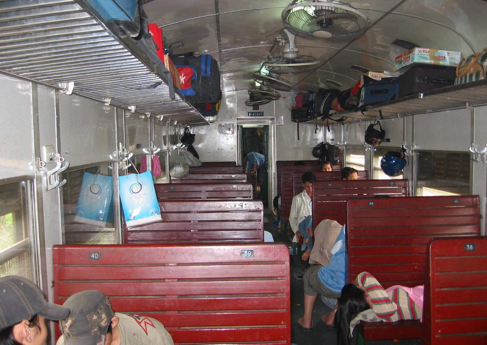 Luxurious Vietnamese Đường sắt Việt Nam local train running between Quy Nhơn and Quảng Ngãi, interior